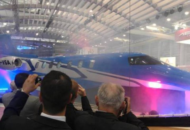 The Pilatus PC-24 prototype (HB-VSA) at its unveiling in May 2013.